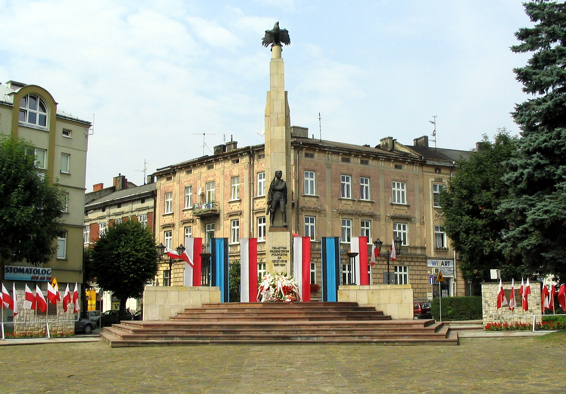 Monument of Przemyśl Eaglets in Przemyśl, Poland.